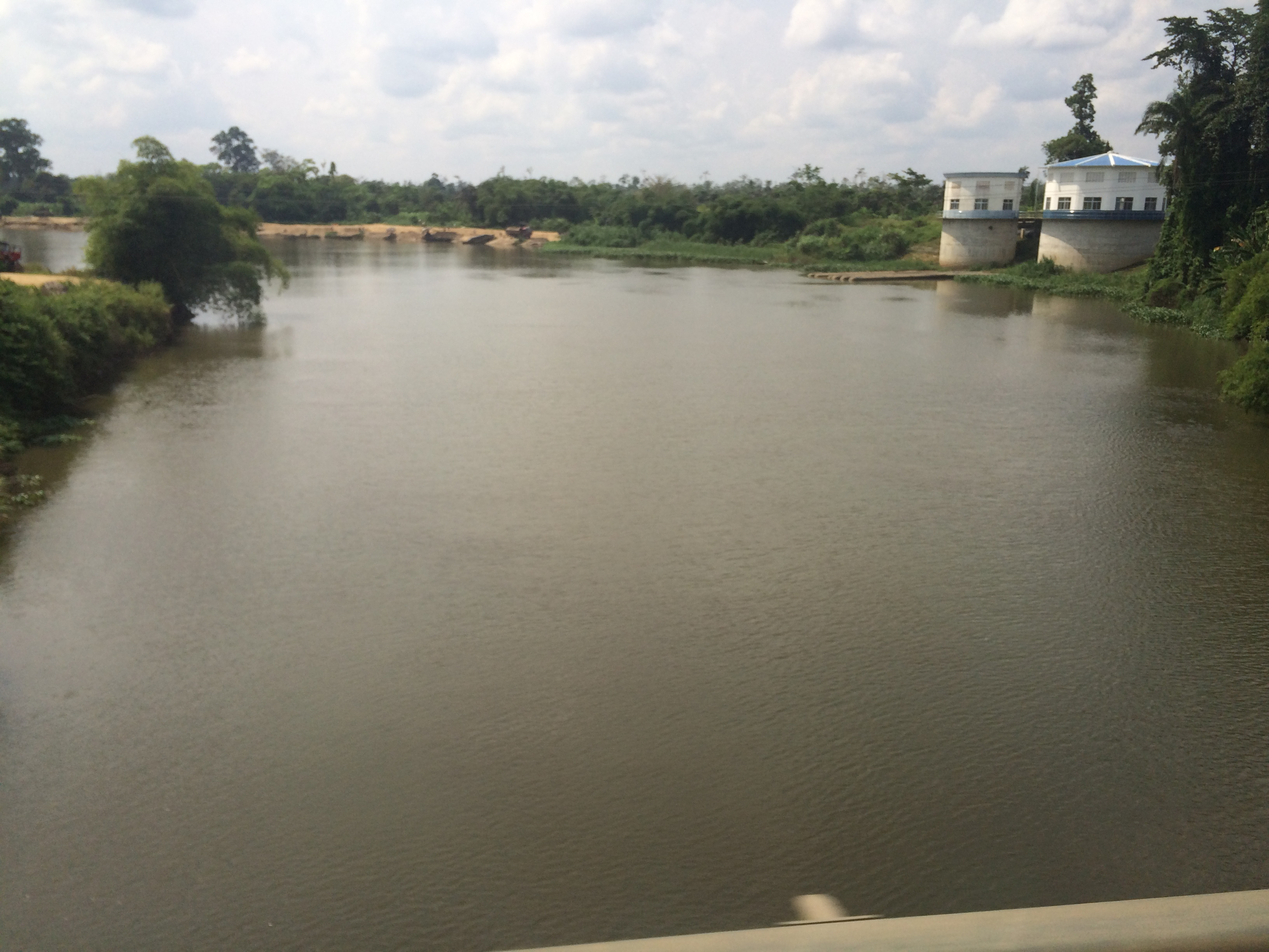 picture of the Mungo River in Douala, Littoral region, Cameroon